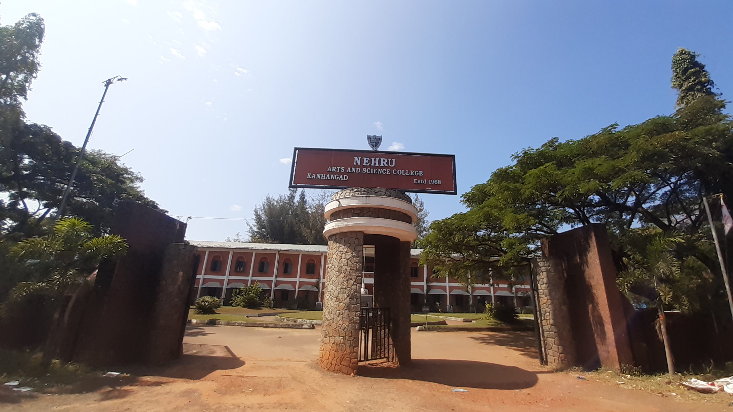 Nehru college is situated in Kanjangad, Kasaragodu